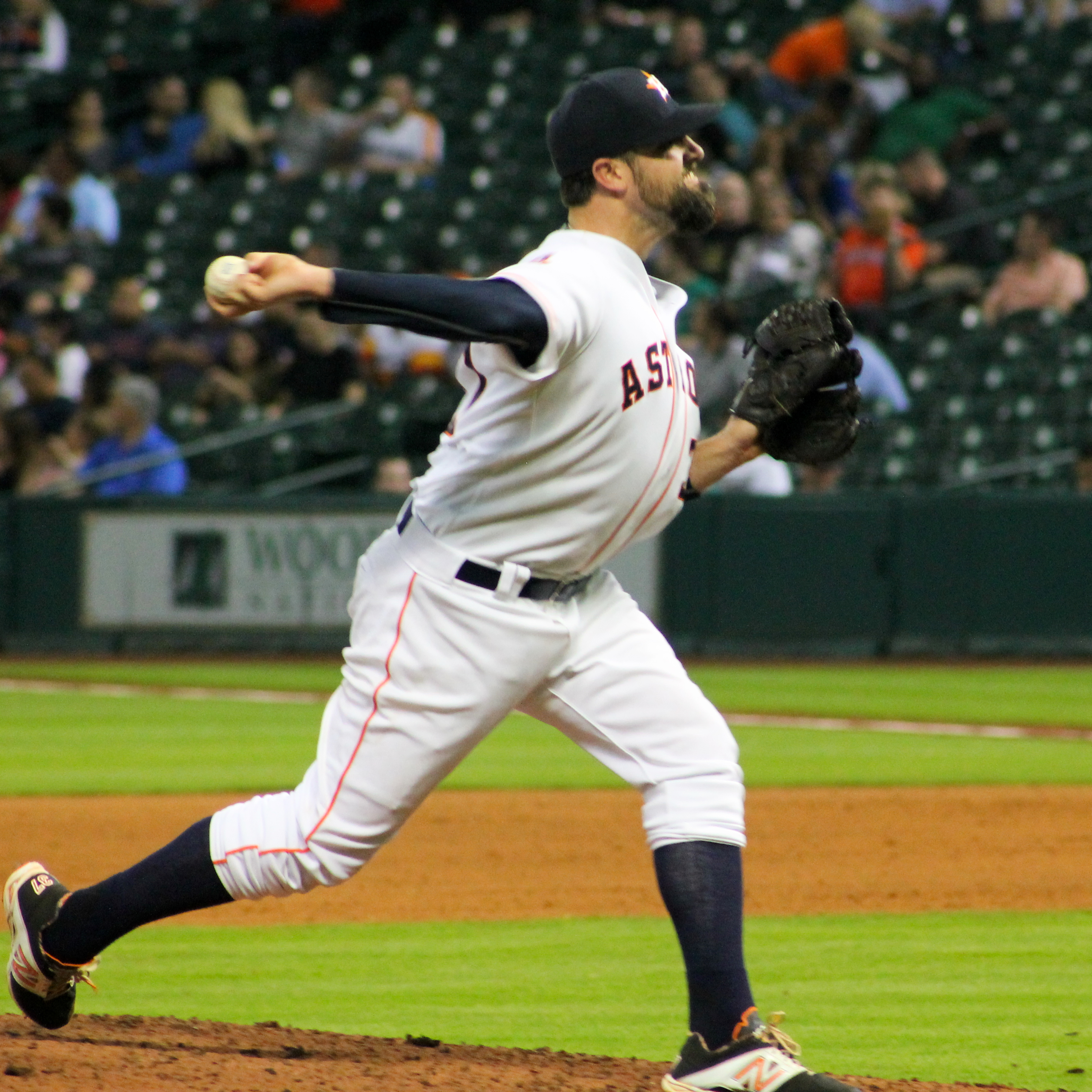 Pat Neshek, a professional baseball pitcher, during a game in Houston in April 2015.